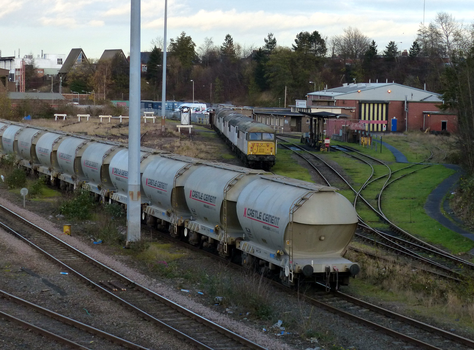 Railway sidings along the Midland Main Line